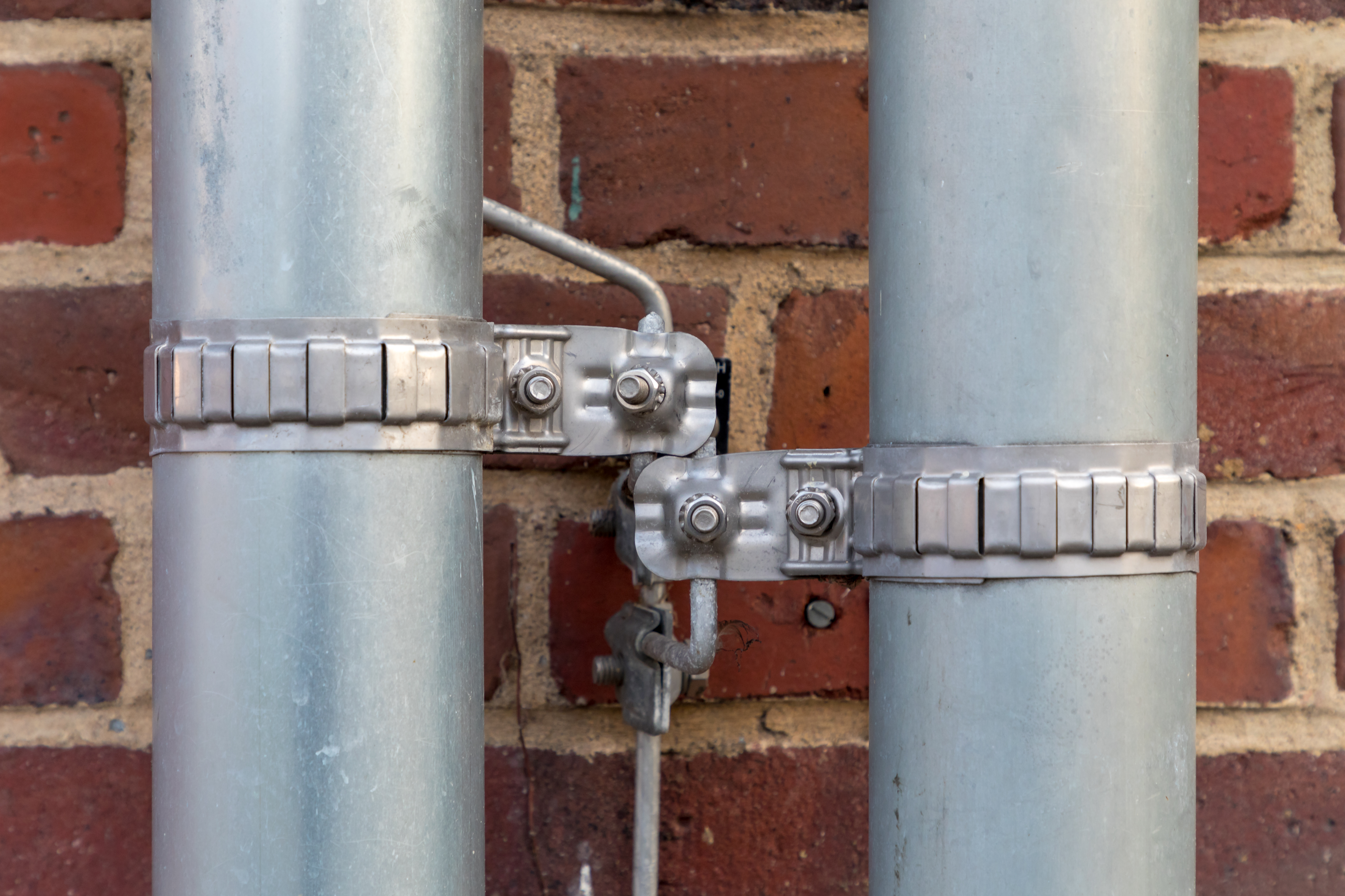 Lightning rod at the Albert-Schweitzer-Campus, Münster, North Rhine-Westphalia, Germany